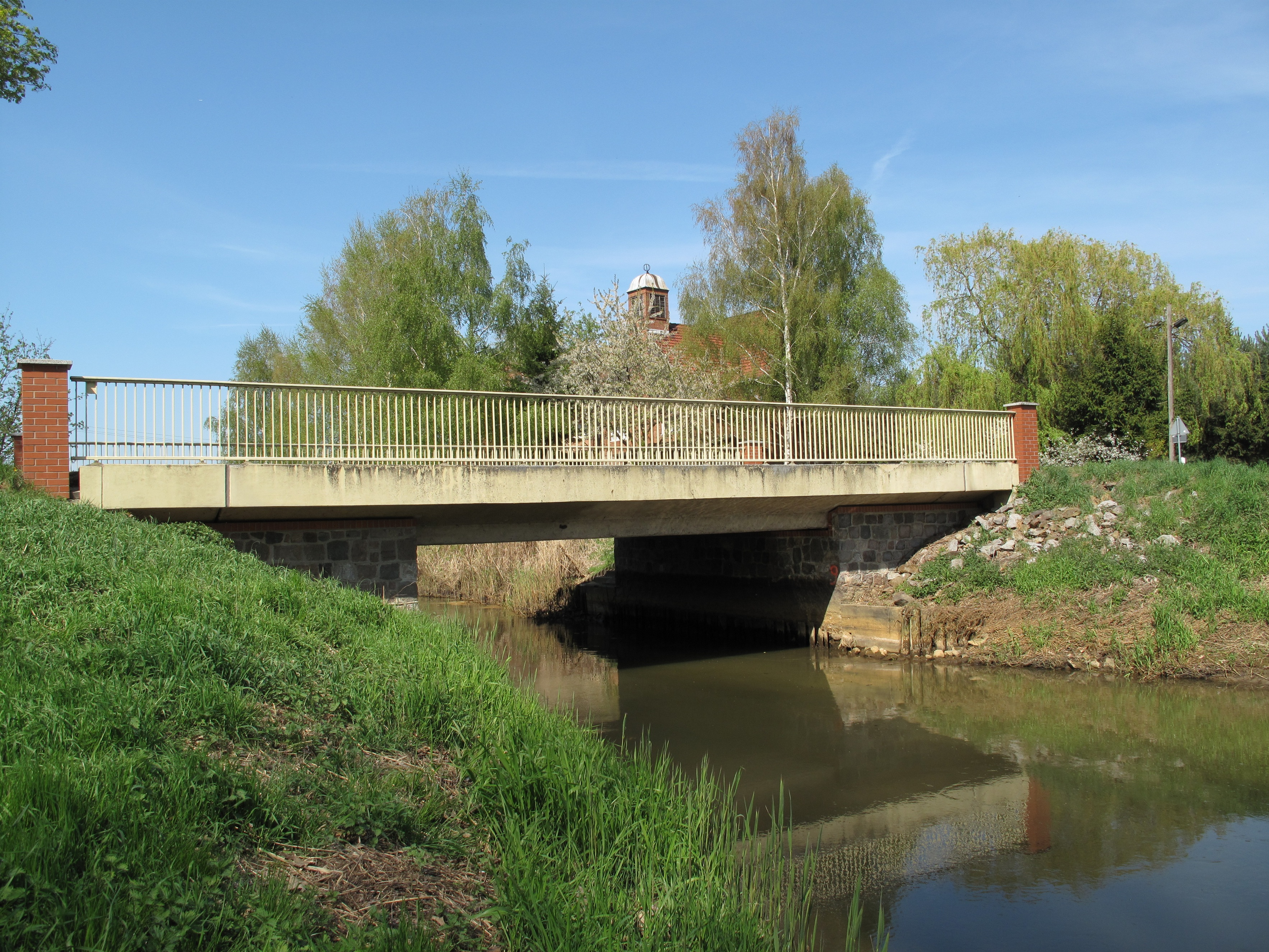 Bridge of the Landesstraße 34 over the Friedländer Strom in Neufriedland. In the background a former mill building. Neufriedland is as part of Altfriedland, a village of the municipality Neuhardenberg in the District Märkisch-Oderland, Brandenburg, Germany.